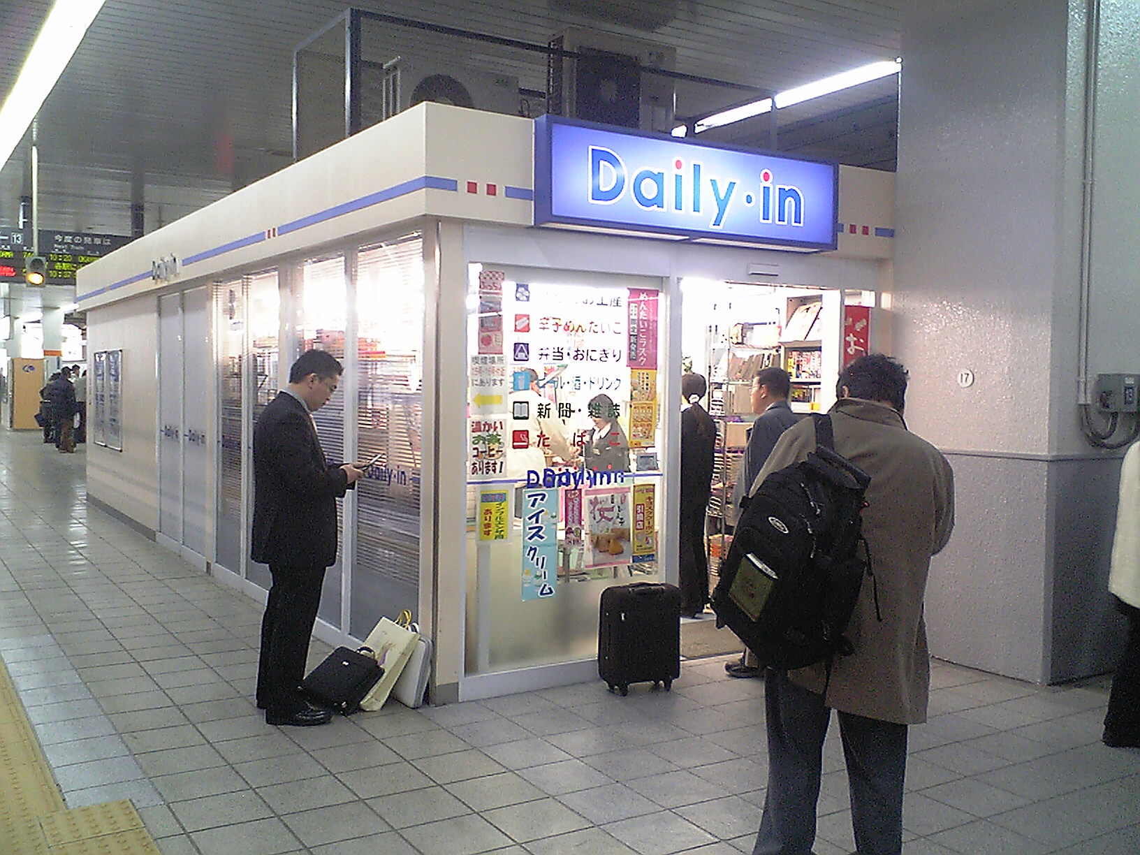 Daily-in store in Hataka Station